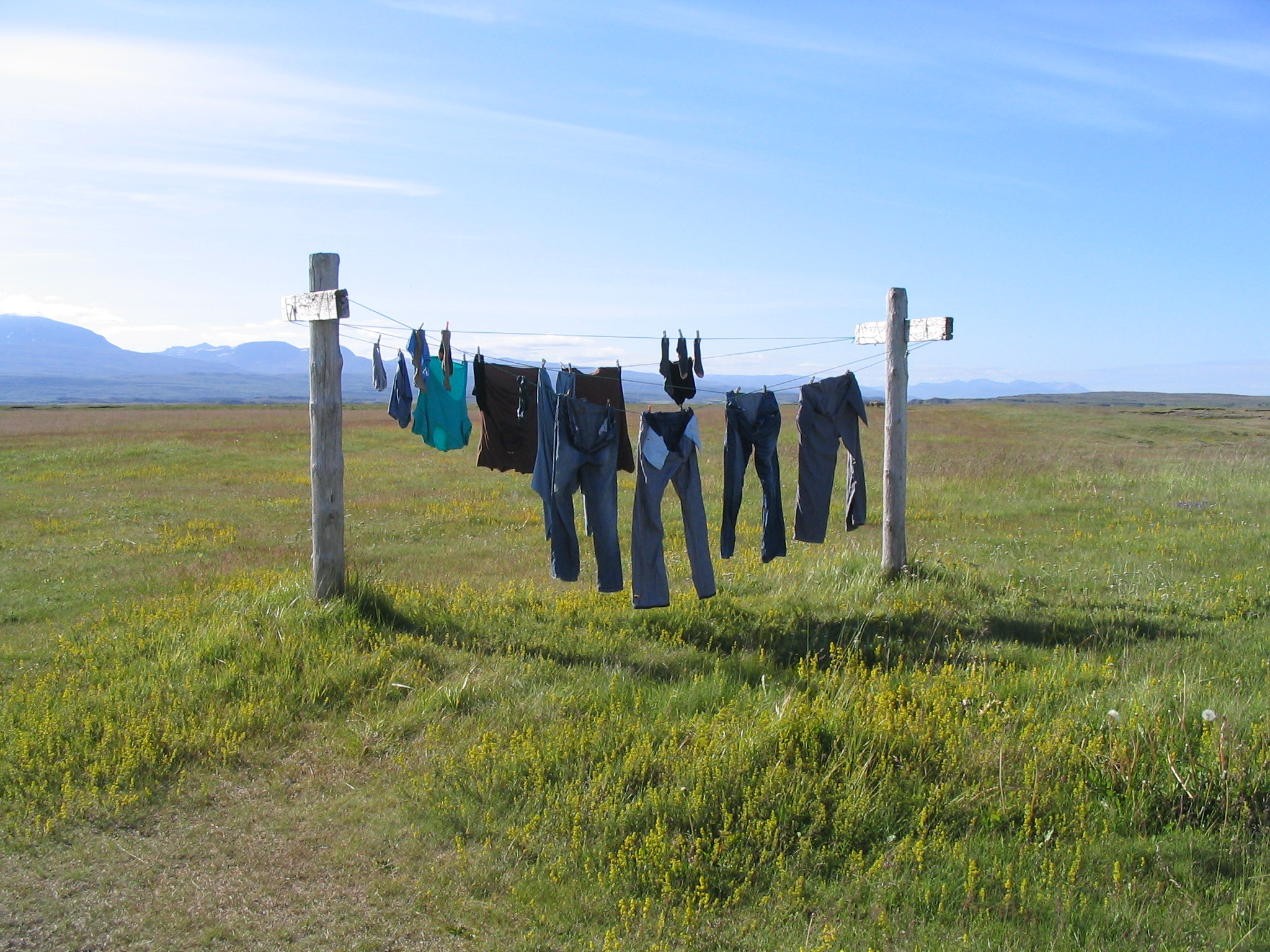 From en.wiki: Washing line in Iceland. Taken by myself in July 2005. – drw25 (talk) 16:20, 29 September 2006 (UTC)